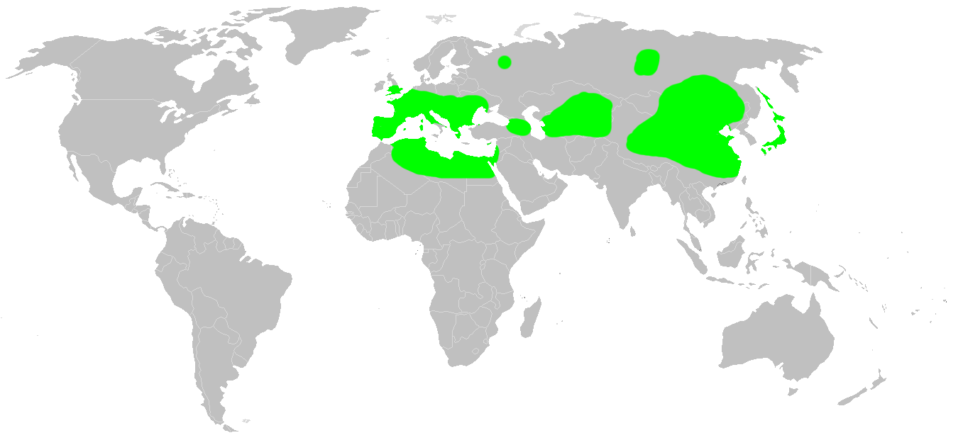 Known world distribution of Uloborus walckenaerius (Uloboridae), after data from British Arachnological Society, 2006.